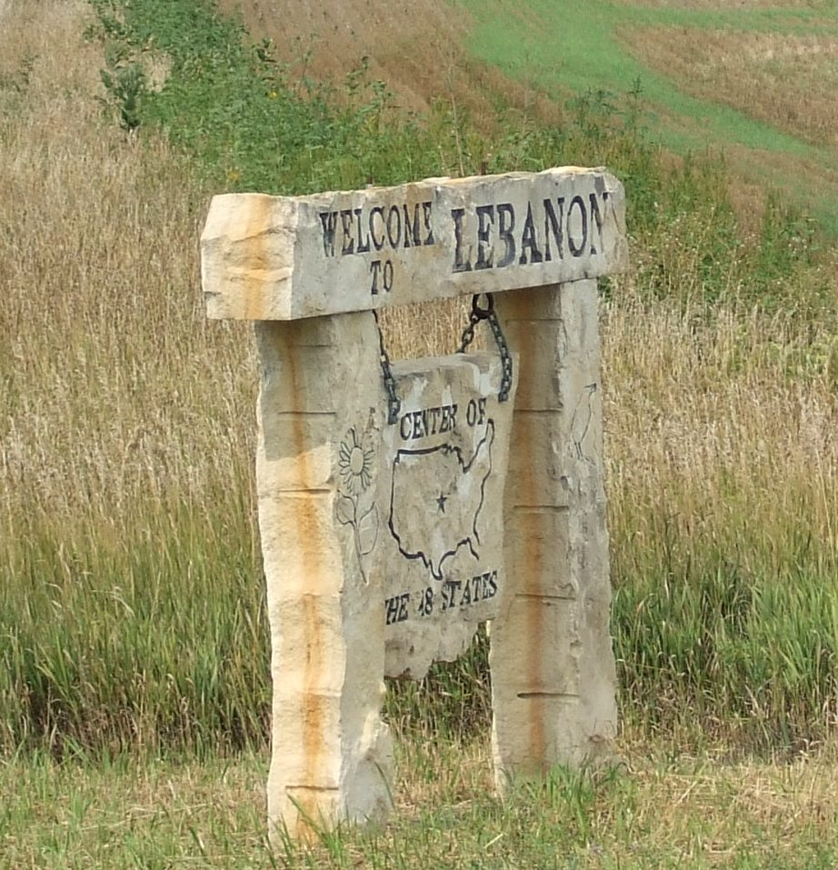 Welcome to Lebanon, Kansas